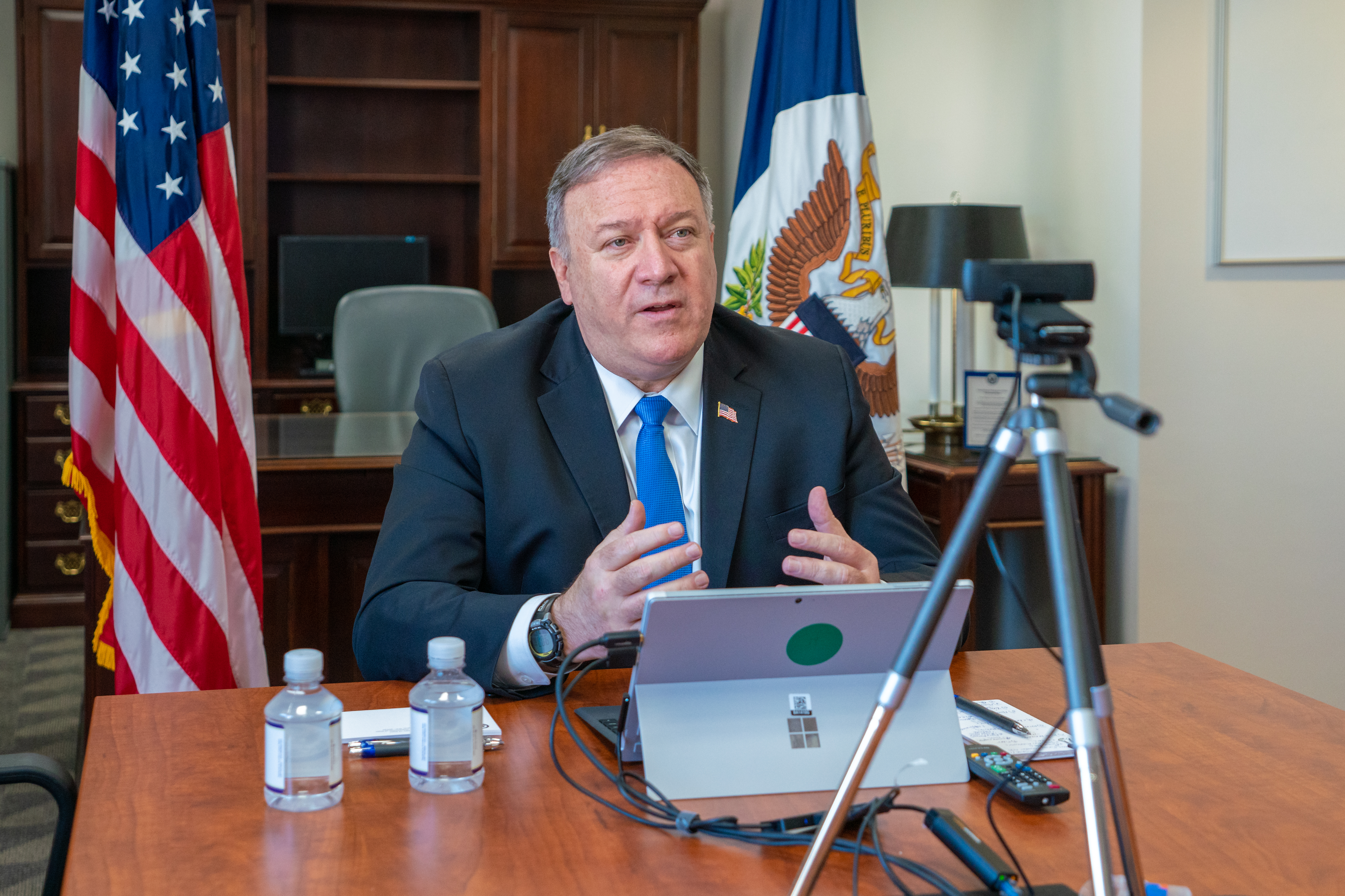 U.S. Secretary of State Michael R. Pompeo participates in a Virtual Town Hall with Mission Italy in a conference room, at the Department of State in Washington, D.C., on April 9, 2020. [State Department Photo by Ronny Przysucha / Public Domain]